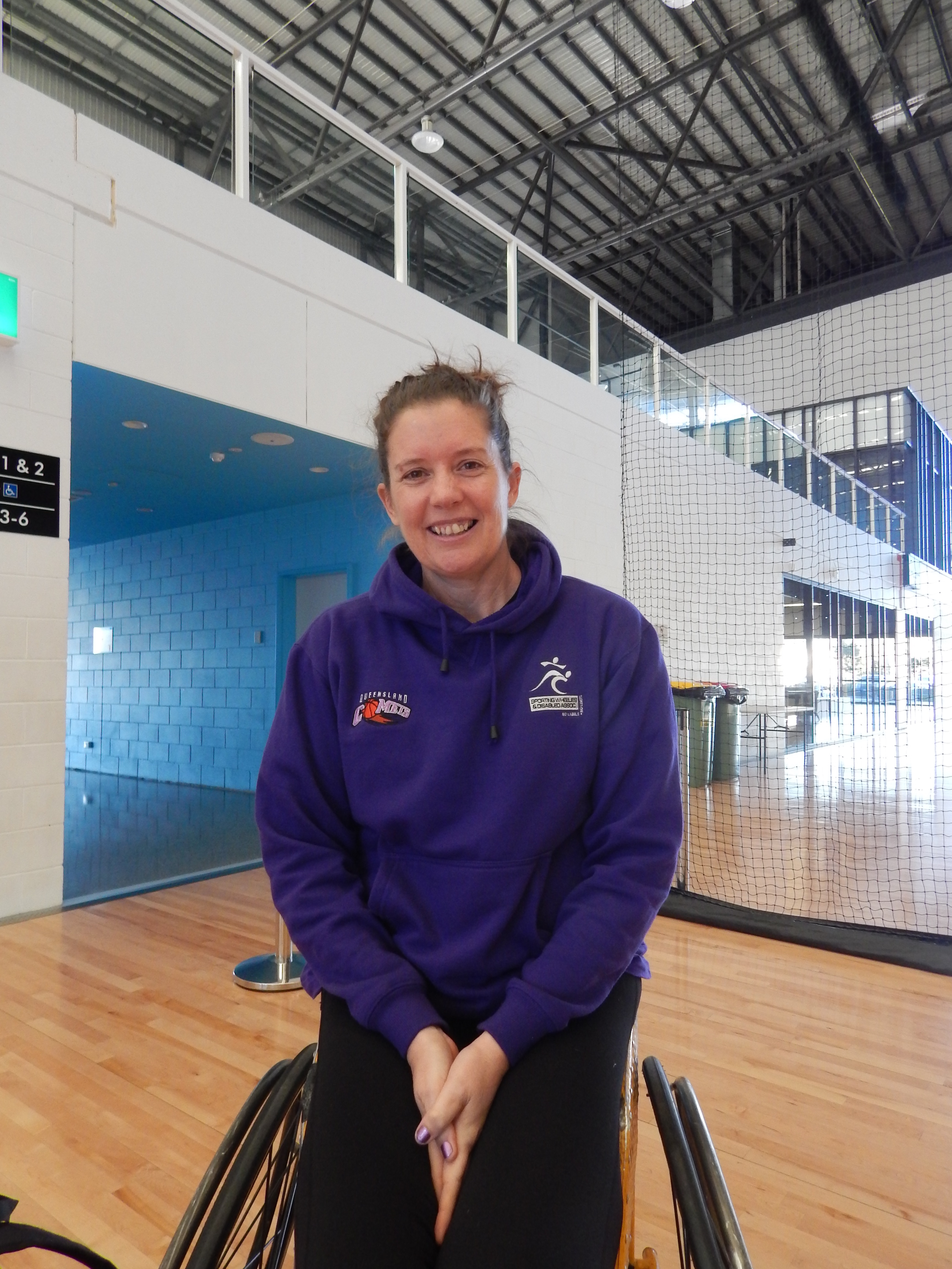 Alison Mosely playing for the Queensland Minecraft Comets in the WNWBL finals in Brisbane